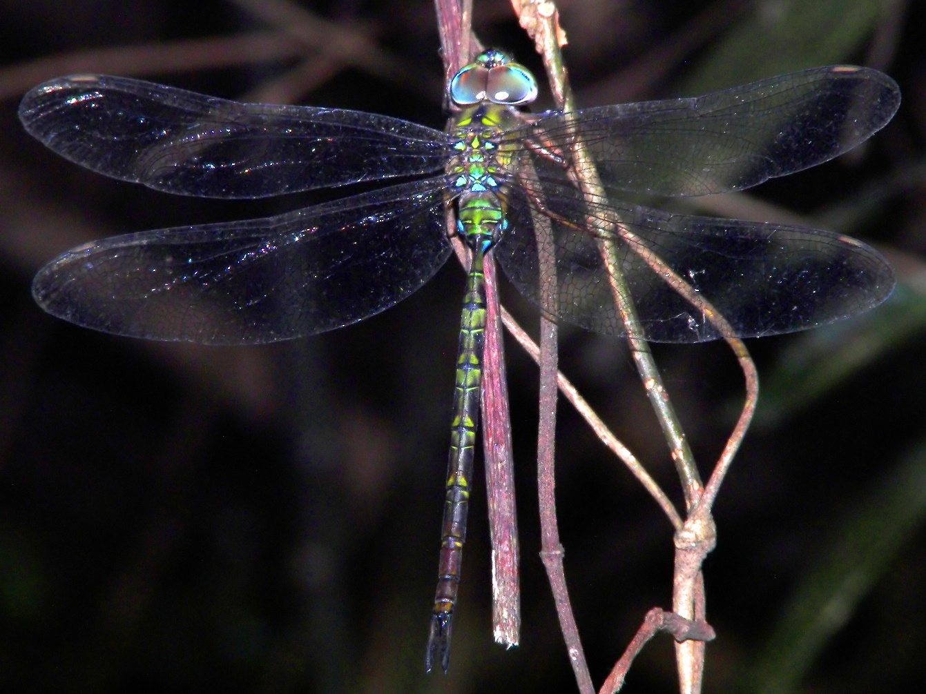 Photo from Hong Kong